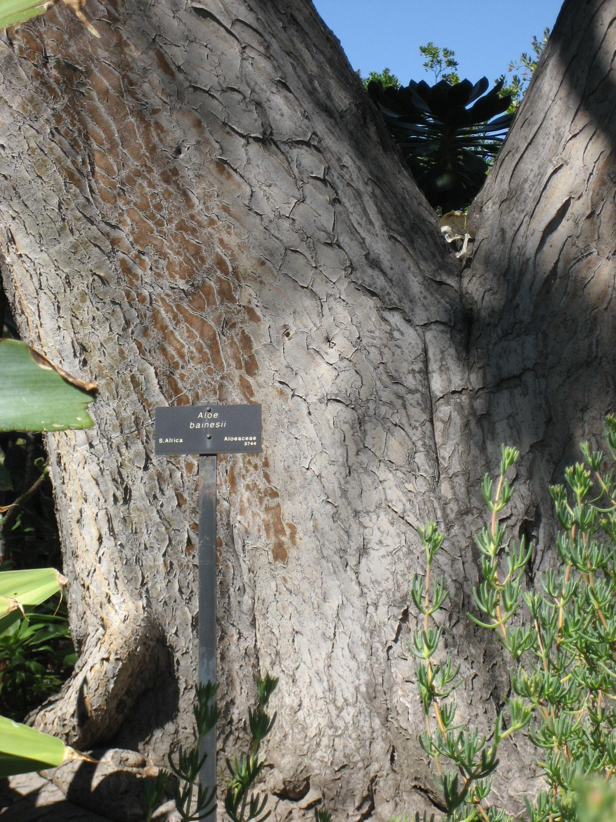 Photographed at Huntington Gardens (Los Angeles) in March